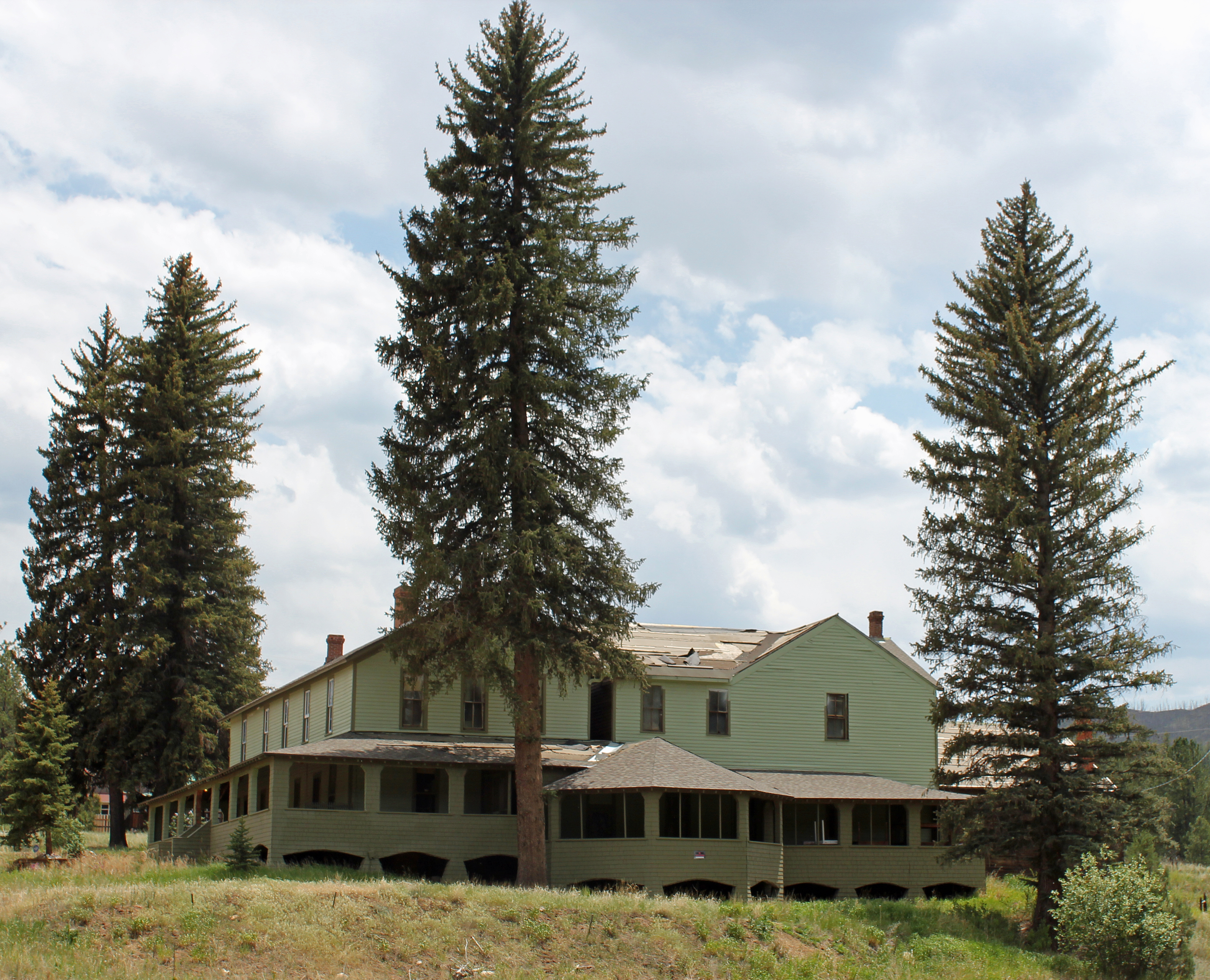 The Blue Jay Inn, located on Deckers Road in Buffalo Creek, Colorado. The property is listed on the National Register of Historic Places.